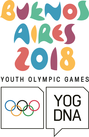 The logo from the Youth Olympic games Buenos Aires 2018